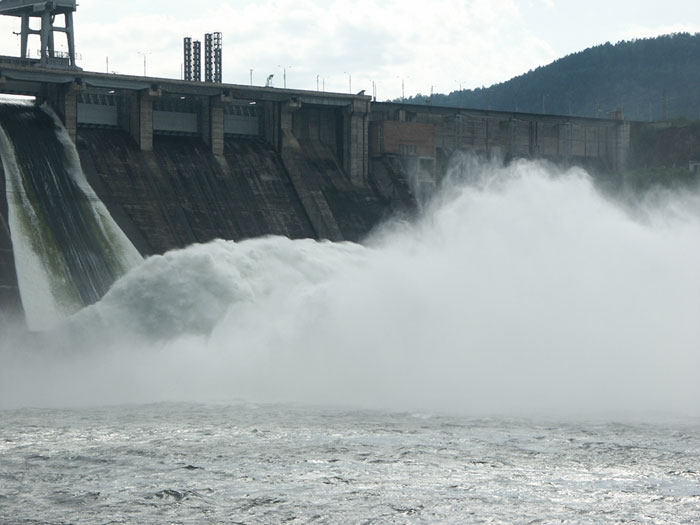 The Krasnoyarsk Dam in Russia.